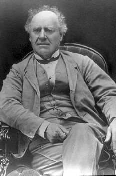 Joseph Howe (1804-1873), Ottawa, Ontario